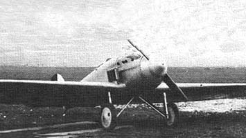 Italian Piaggio P.2 fighter